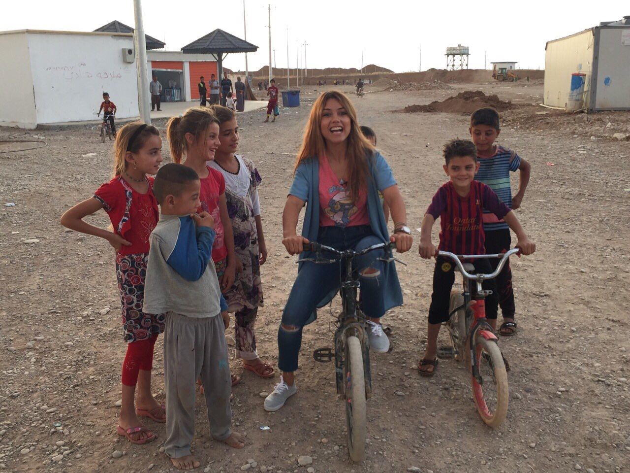 We had a great day at Green Kids, my team took this photo and I own the rights to it